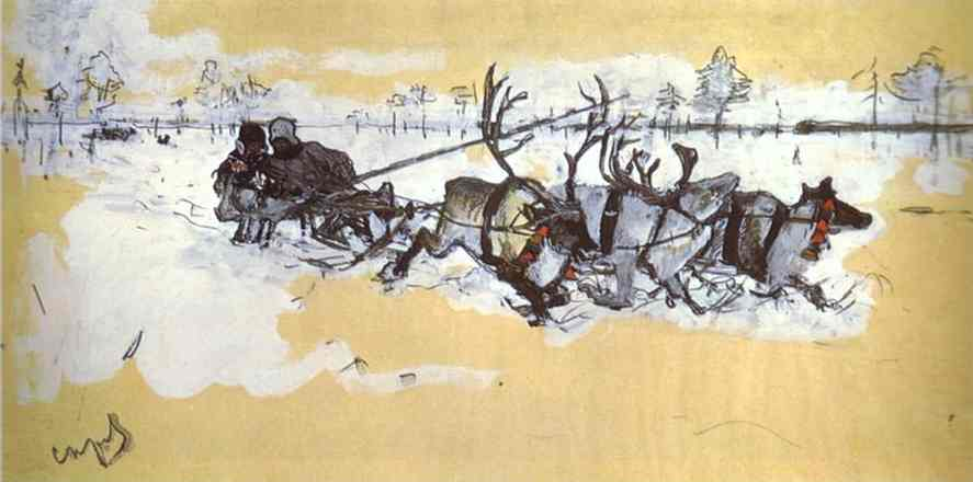 Tundra. Travelling by Deer. 1896. Gouache, graphite on paper. The Tretyakov Gallery, Moscow, Russia.